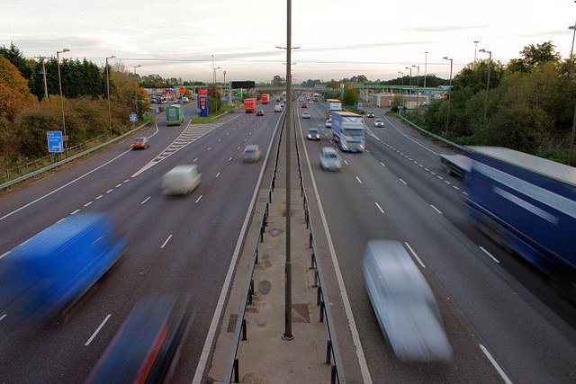 The M1 at Watford Gap